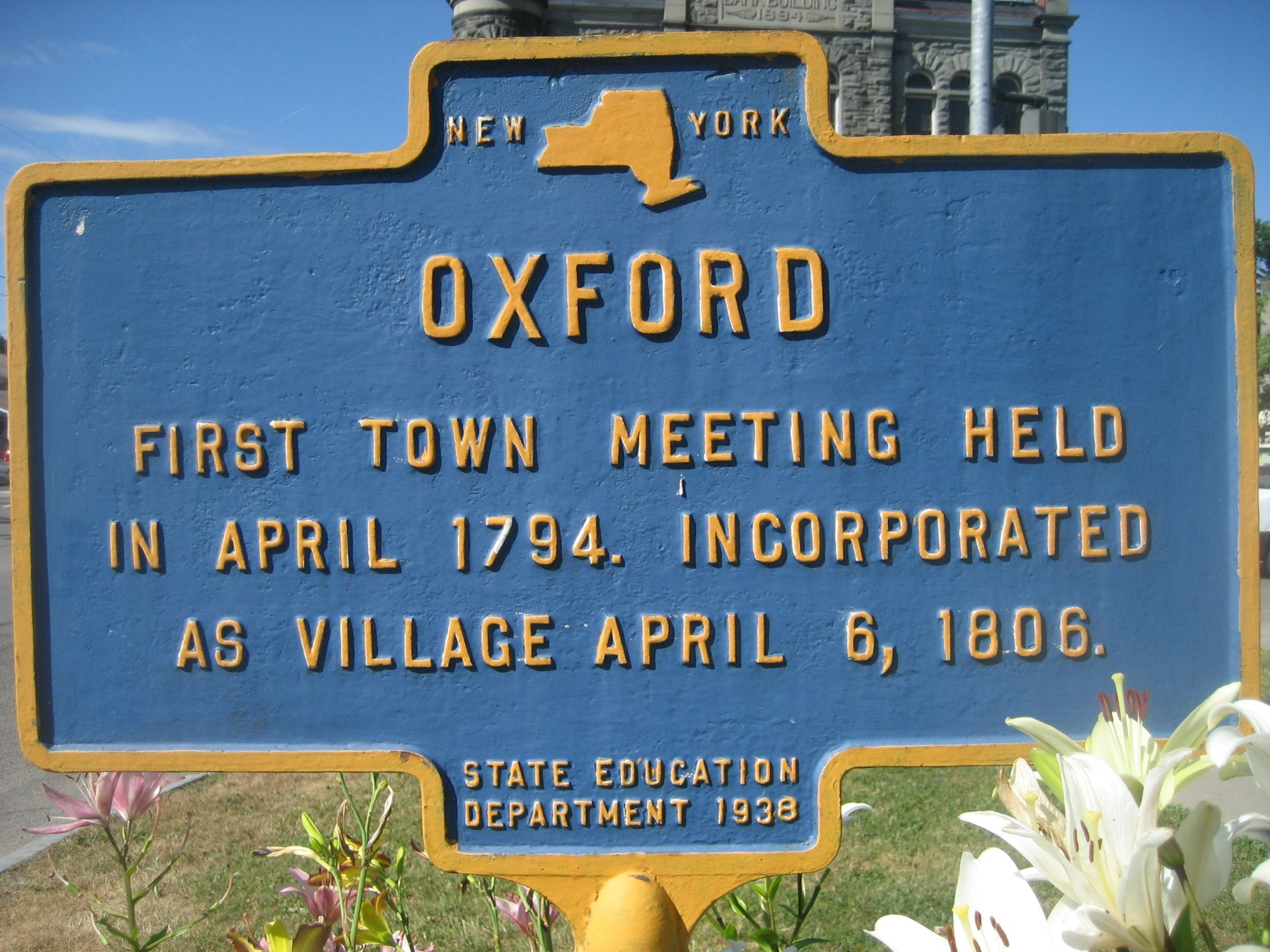 Historical marker of first town meeting, April 1794 of Oxford, NY. Incorporated as a village April 6, 1806.